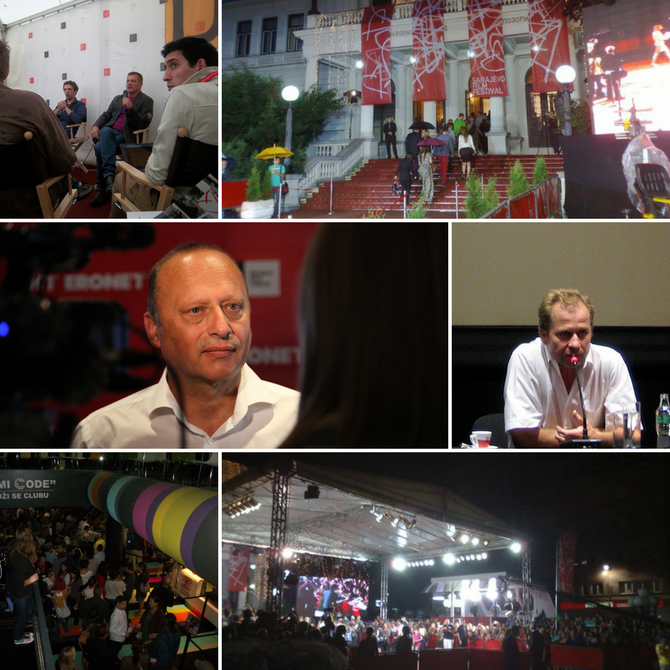 This is the collage of photos from Wikimedia Commons Category: Sarajevo Film Festival. Photo depicts: Mirsad Purivatra, director of festival; Ulrich Seidl, SFF 2007; National Theater/Festival Square; CinemaCity.